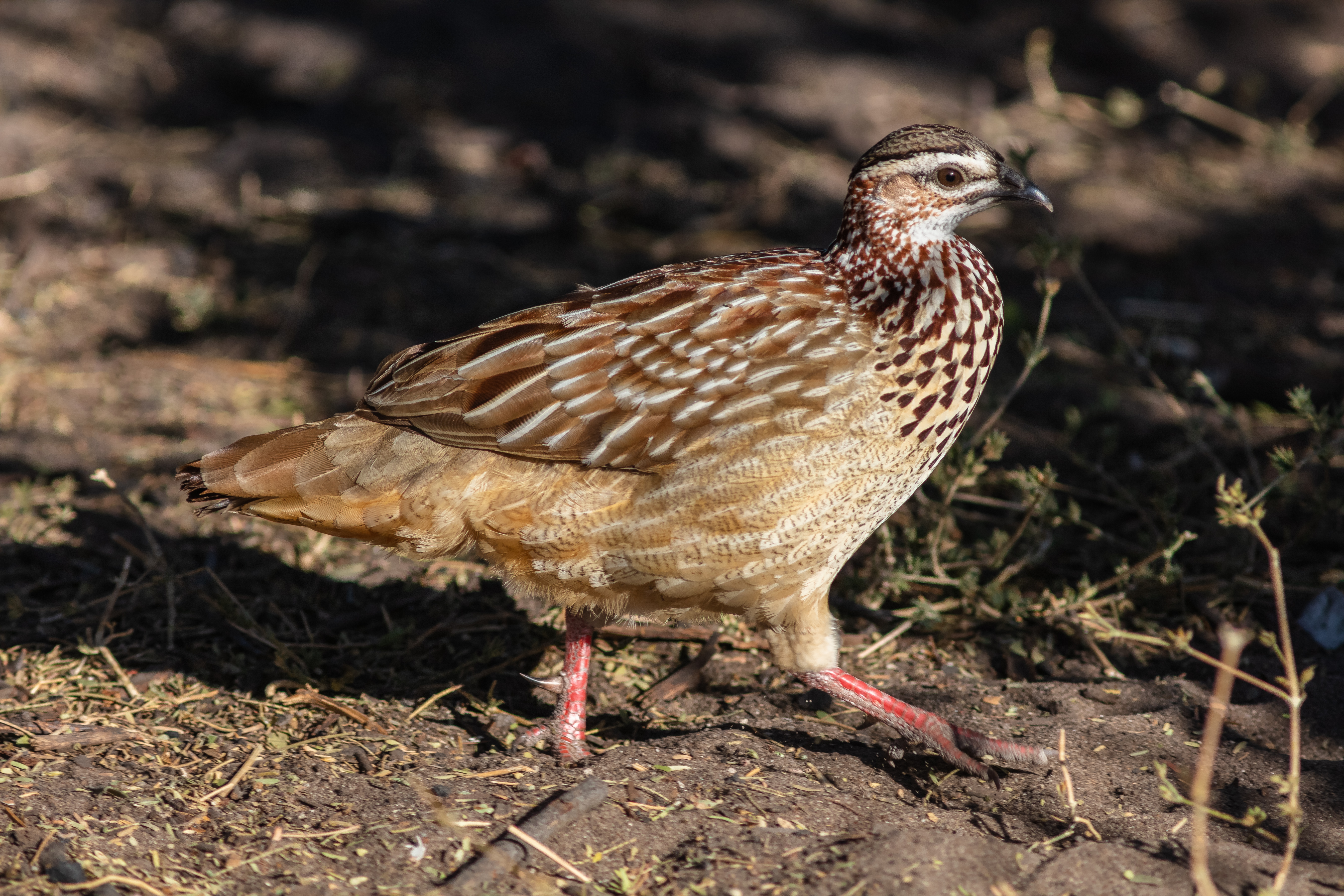 Crested francolin (Dendroperdix sephaena), Chobe National Park, Botswana